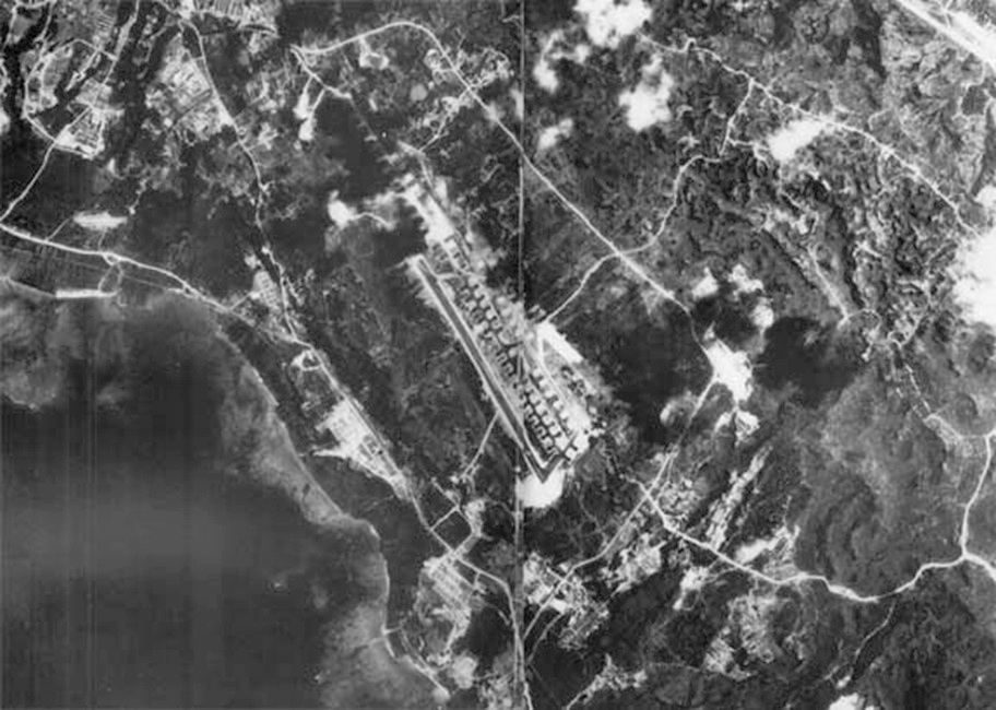 This photograph is an overhead aerial photo of Futenma Air Base in Okinawa, Japan, taken circa 1945, right after the end of World War II and the liberation of the island from the Imperial Army of Japan.